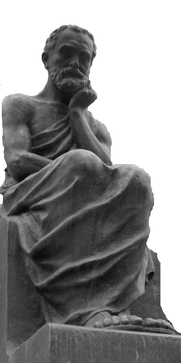 The Philosopher, supporter of the 1929 Mihai Eminescu statue, Iași. Widely believed to represent Eminescu's protagonist Poor Dionis, it may (also) be a self-portrait of the sculptor; see "85 de ani de la dezvelirea statuii lui Mihai Eminescu", in Curierul de Iași, June 13, 2014.